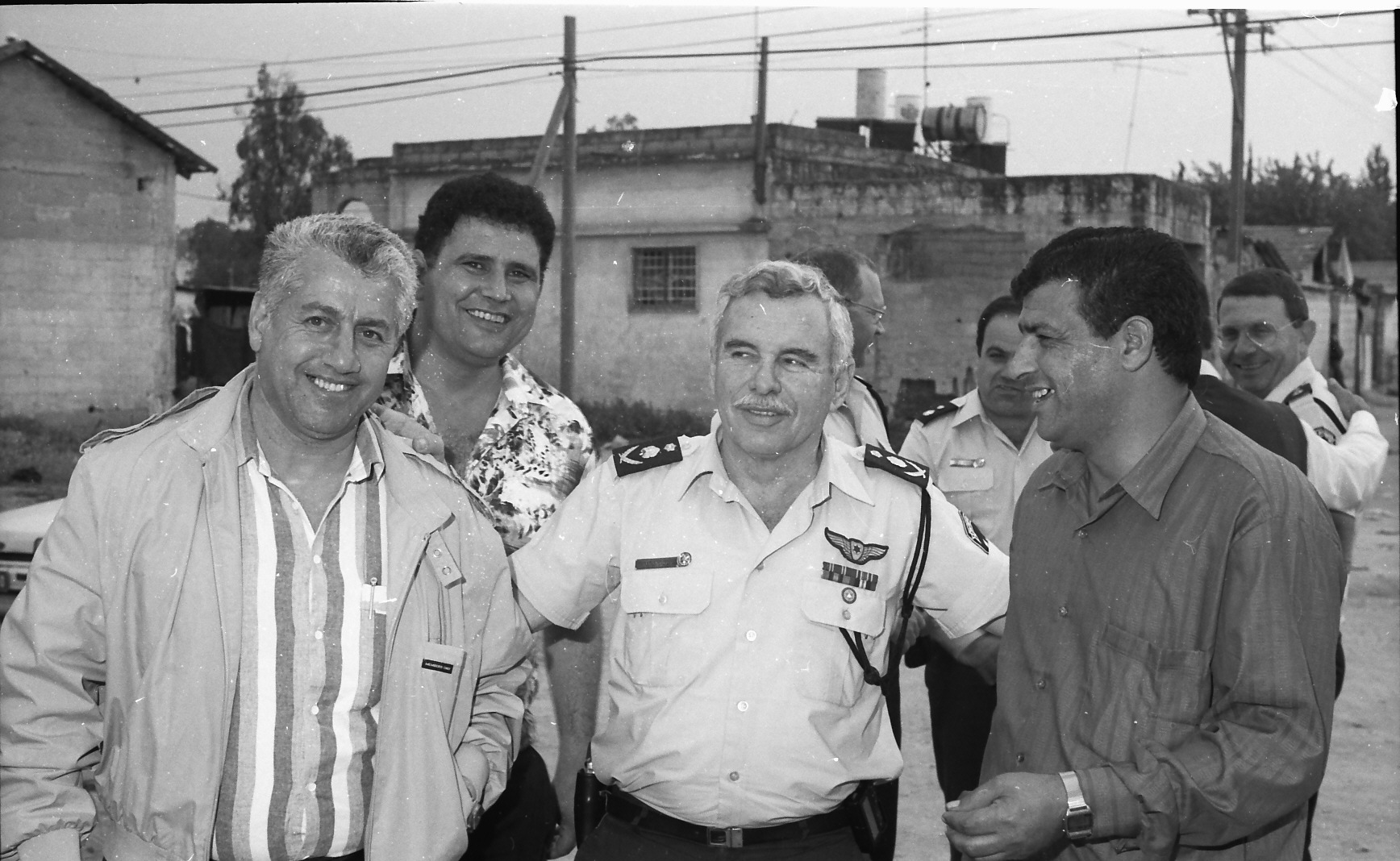 People of Israel